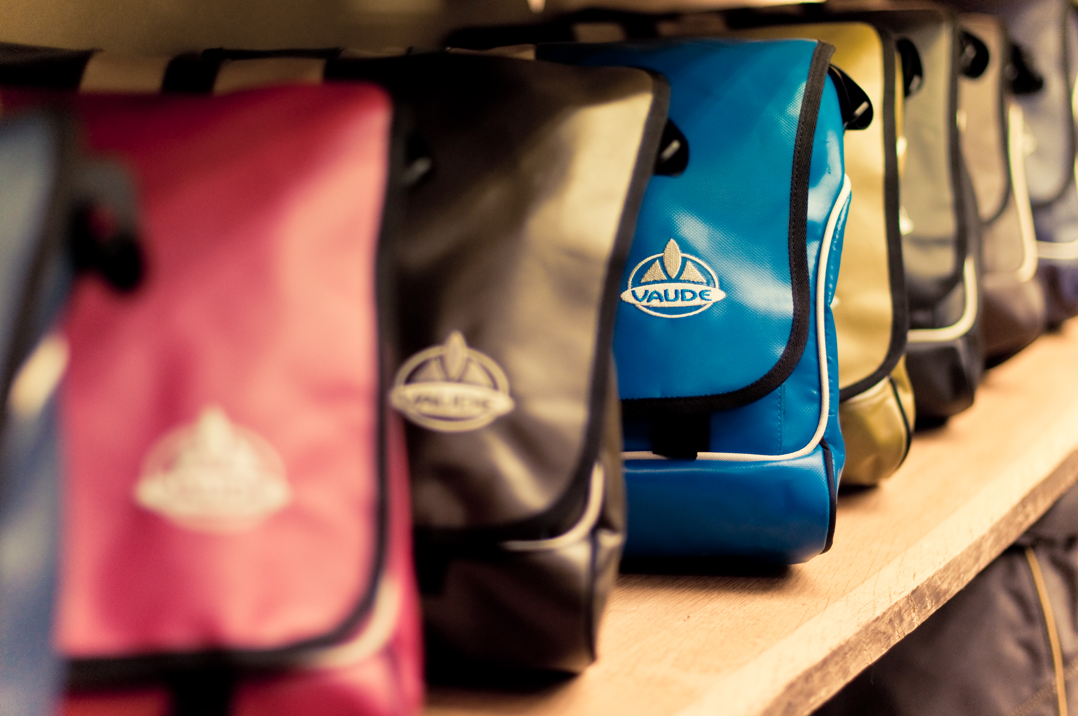 bags by the German producer of mountain sports equipment Vaude